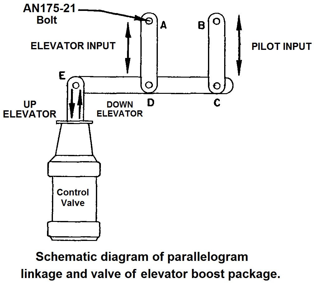 Diagram of elevator linkage showing location of missing bolt